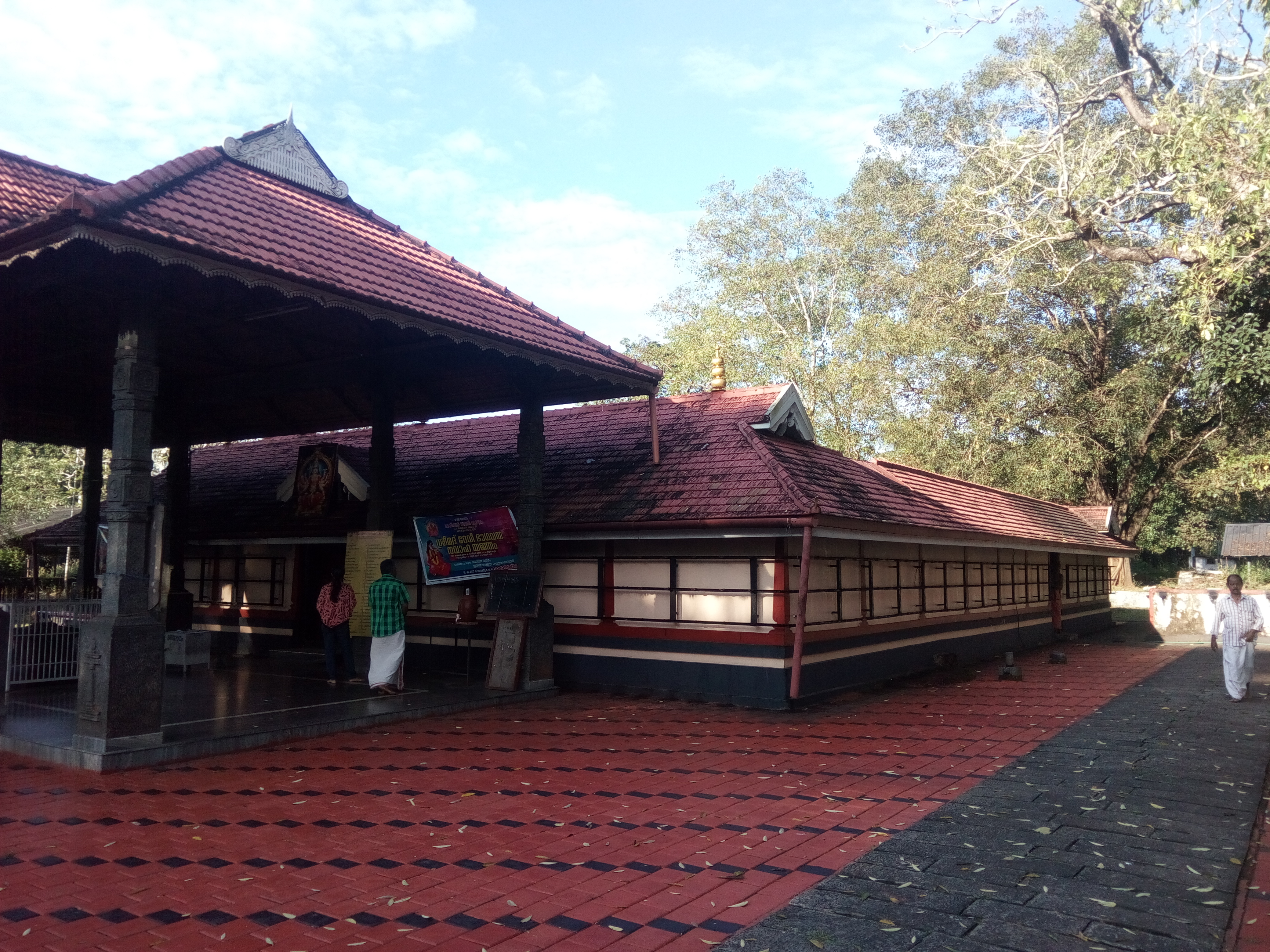 Akkikavu bhagavathy Temple is in Akkikavu, Trissur dist. In Kozhikode- trissur high way.